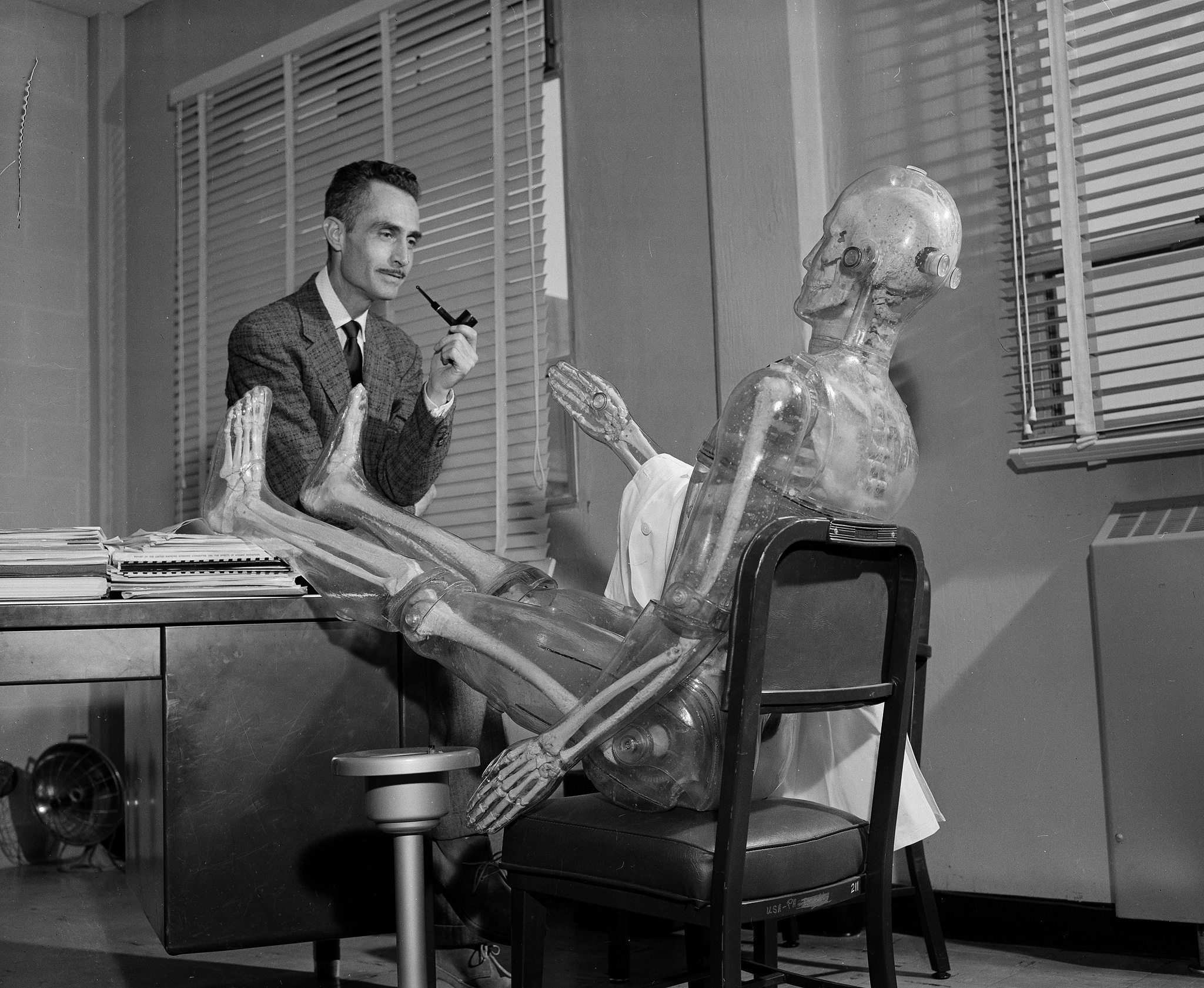 Los Alamos chemist, Wright H. Langham with Plastic Man, used to simulate human radiation exposures, 1959.